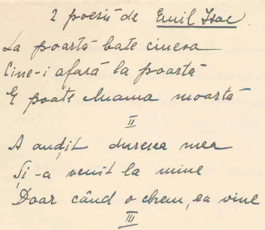 Fragment of a poem (Cântec, "Song"), in one of its pre-publication autographed drafts.